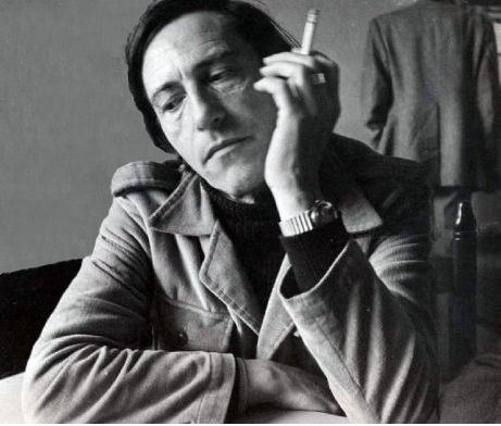 Fernando Lorenzo, escritor y poeta mendocino